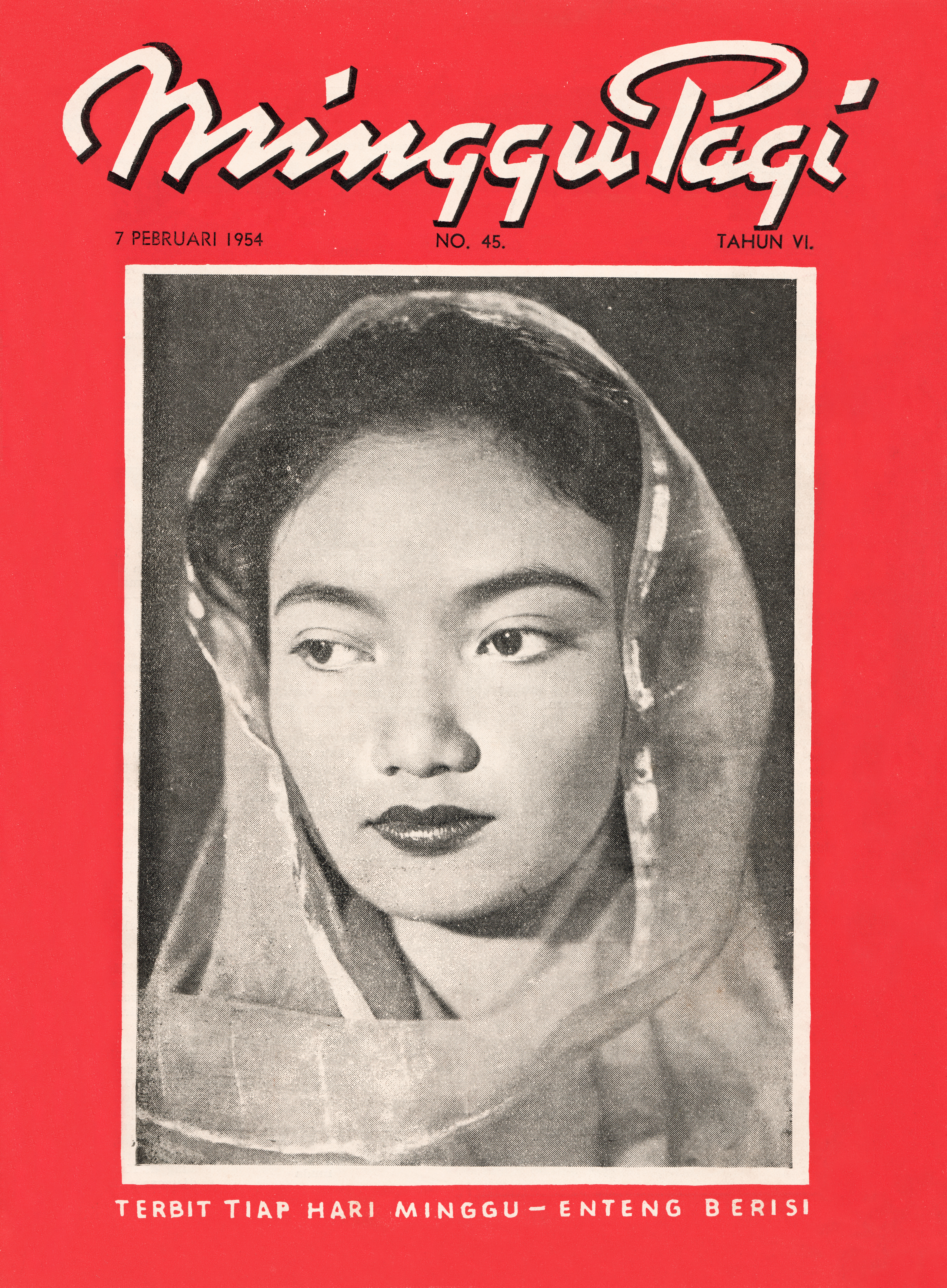 Minggu Pagi 6.45 (7 February 1954) cover. Pictured is the film actress Lies Noor (died 1961)